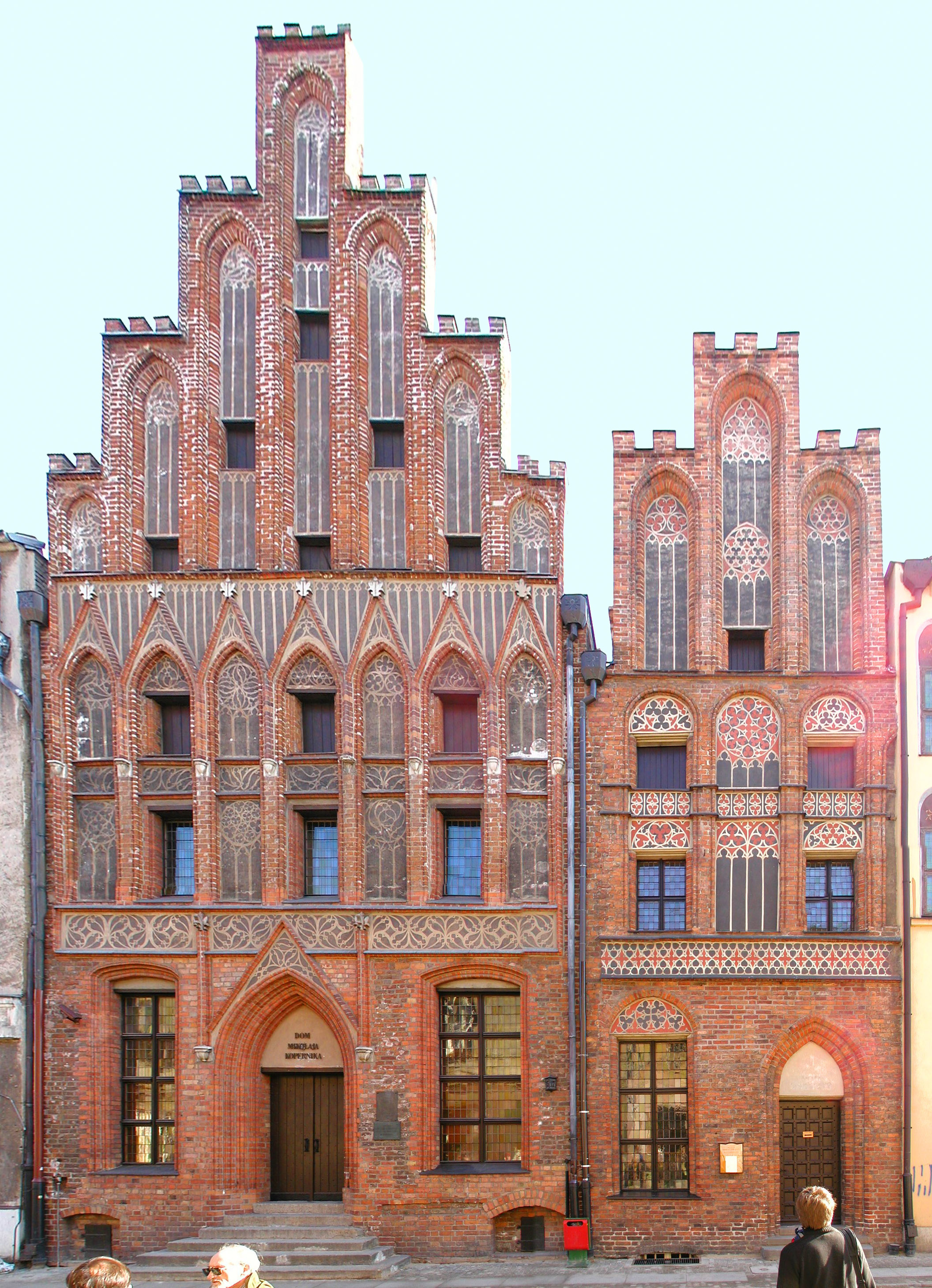 Reorted birthplace of Copernicus — in Toruń, Poland. Example of Polish Brick Gothic architecture.